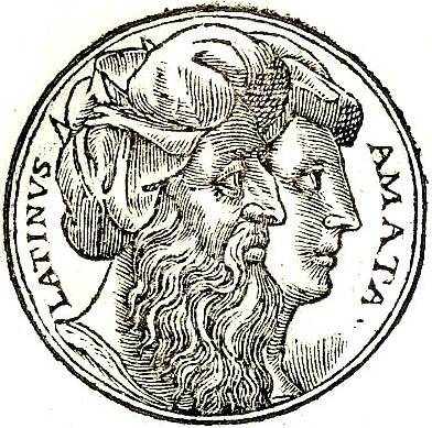 Latinus, Latinus, or Lavinius, was a king of the Latins in later Roman mythology (notably Virgil's Aeneid).